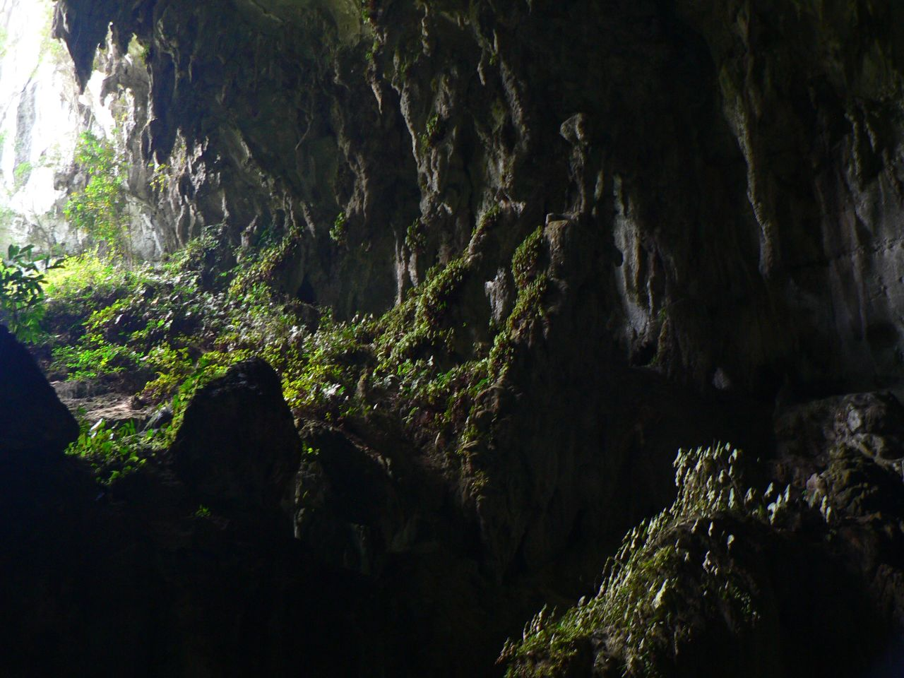 Fairy Cave, Bau District, Sarawak